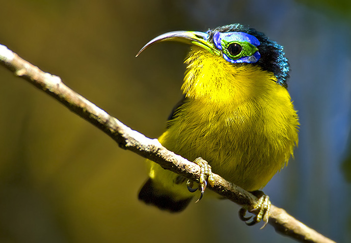 Neodrepanis hypoxanthaRanomafana National Park, Madagascar